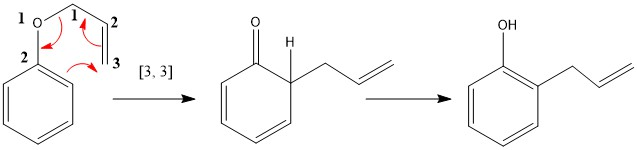 Sigmatropic reaction [3,3]